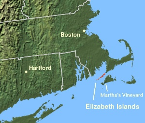 Elizabeth Islands ©2004 Matthew Drumpf